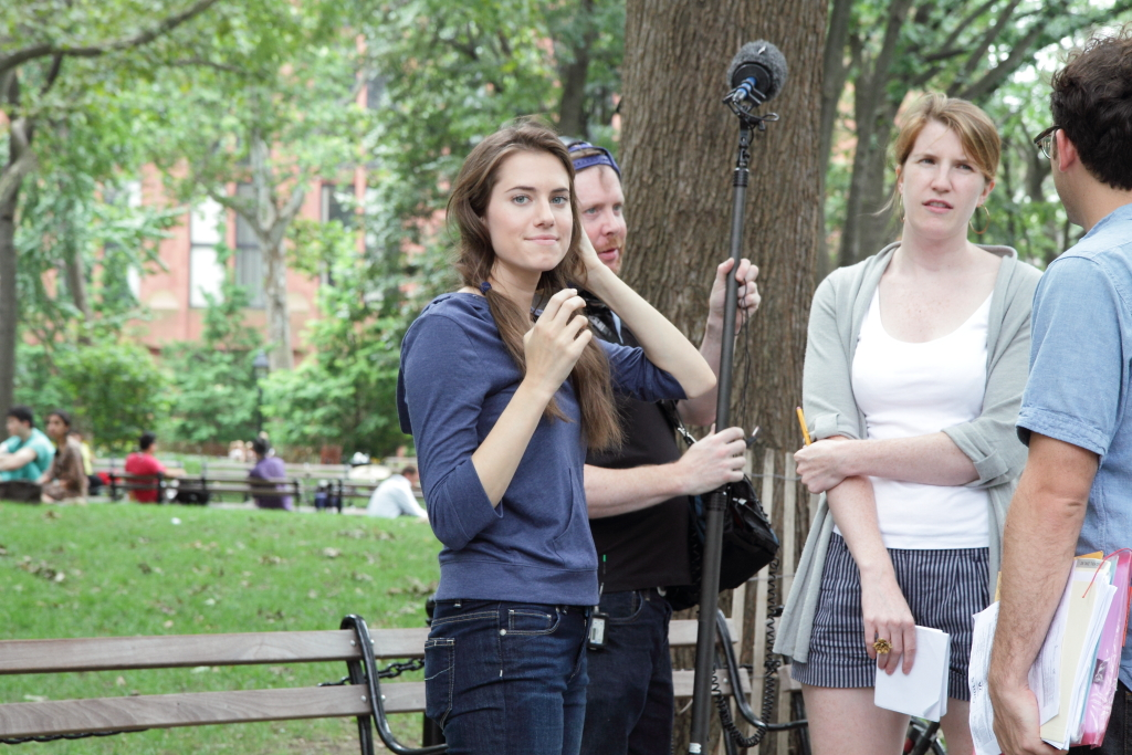 Allison Williams was giving an interview after the filming of Girls in Washington Square Park, Greenwich Village, New York Girls is an American television series that began airing on HBO on April 15, 2012. Created by Lena Dunham, Girls is a dramedy that follows a close group of twenty-somethings as they chart their lives in New York City. The show's premise and major aspects of the main character were inspired by some of 26-year-old Dunham's real-life experiences. From the Wikipedia entry for Girls 55mm @ 1/160 F5.6 ISO 640 MRAW LR